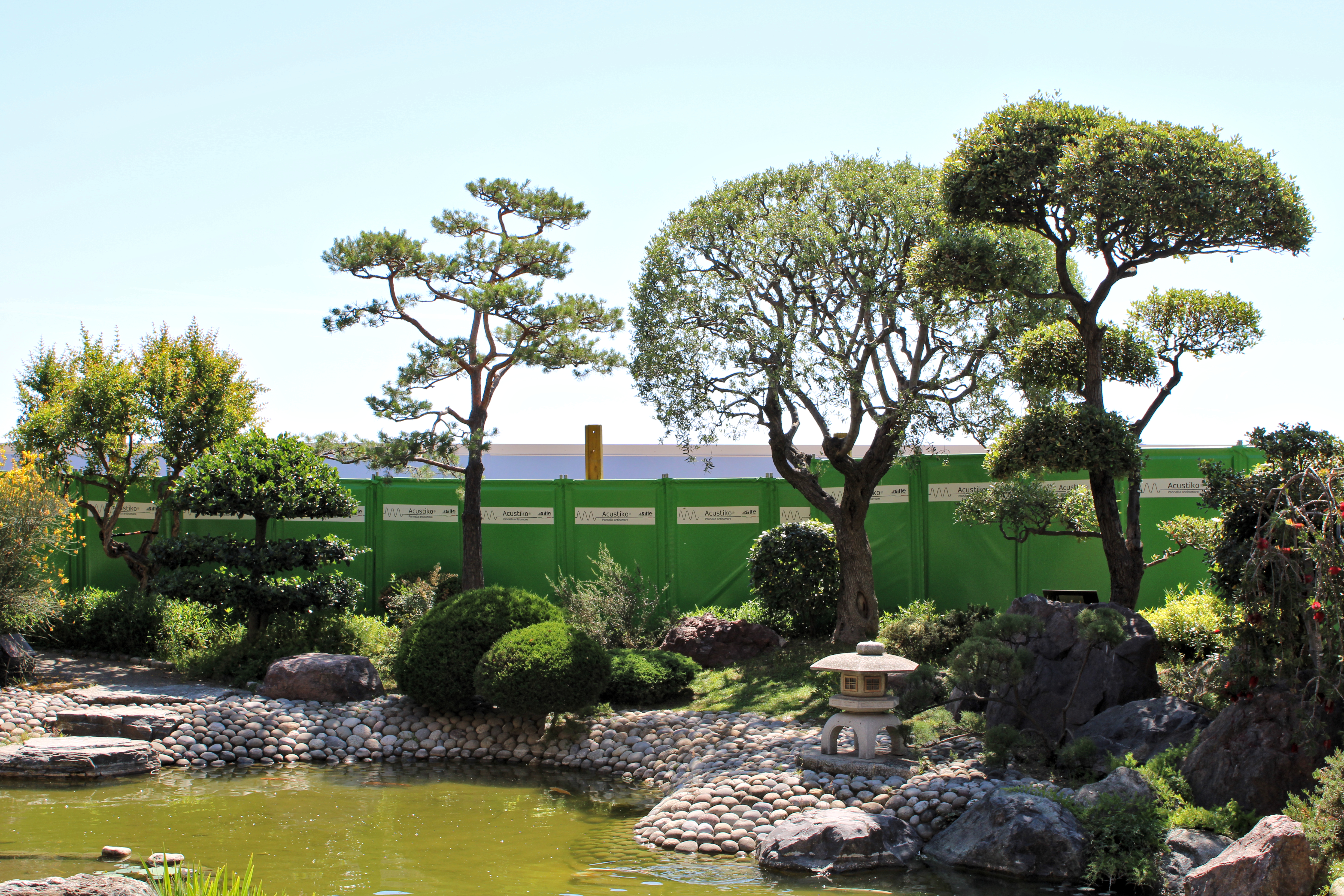 Japanese Garden in Monaco